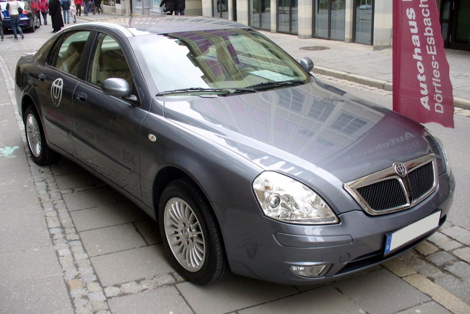 Brilliance BS6